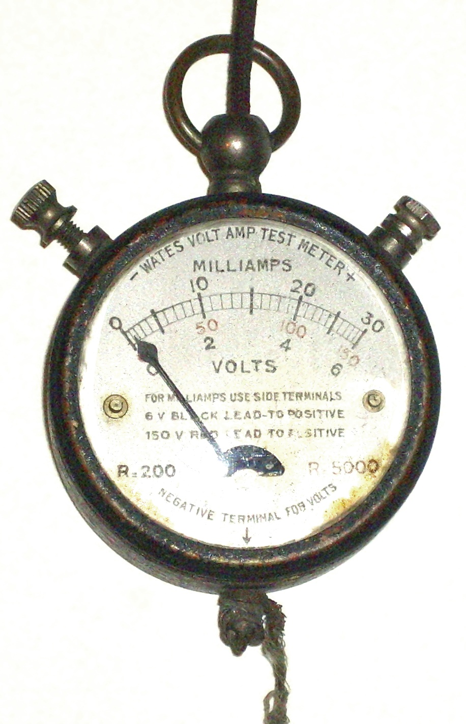 1920s pocket multimeter. 33 ohms per volt, moving iron mechanism, no zero adj, one current and 2 voltage scales.